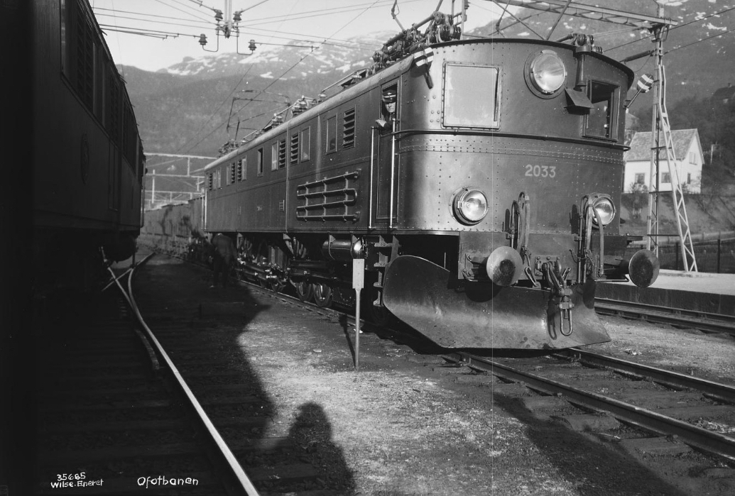 Norges Statsbaner El 4.2033 at Narvik railway station on Ofotbanen, Norway.